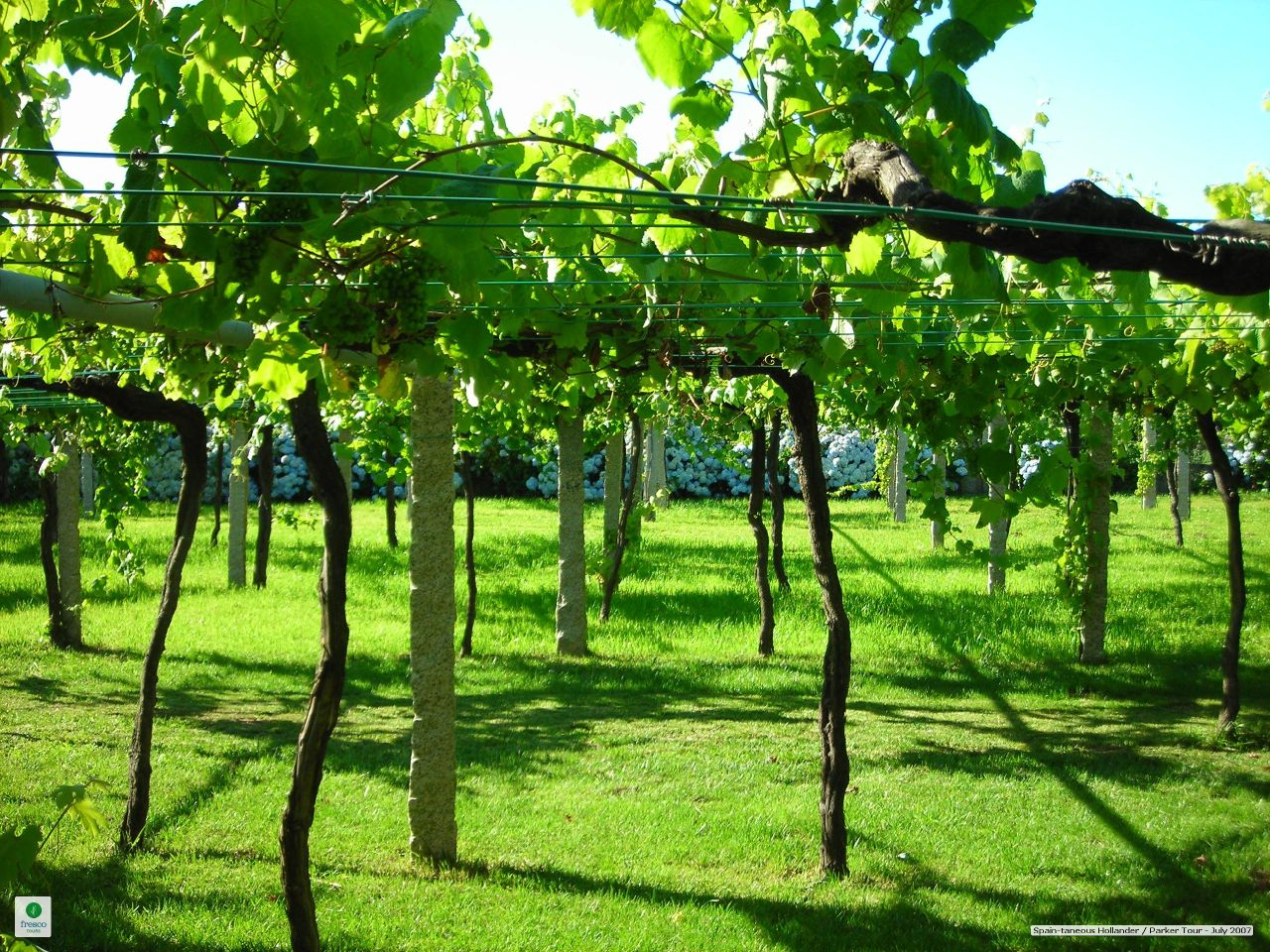 Spanish vineyard in Galicia with wide spacing among the vines.